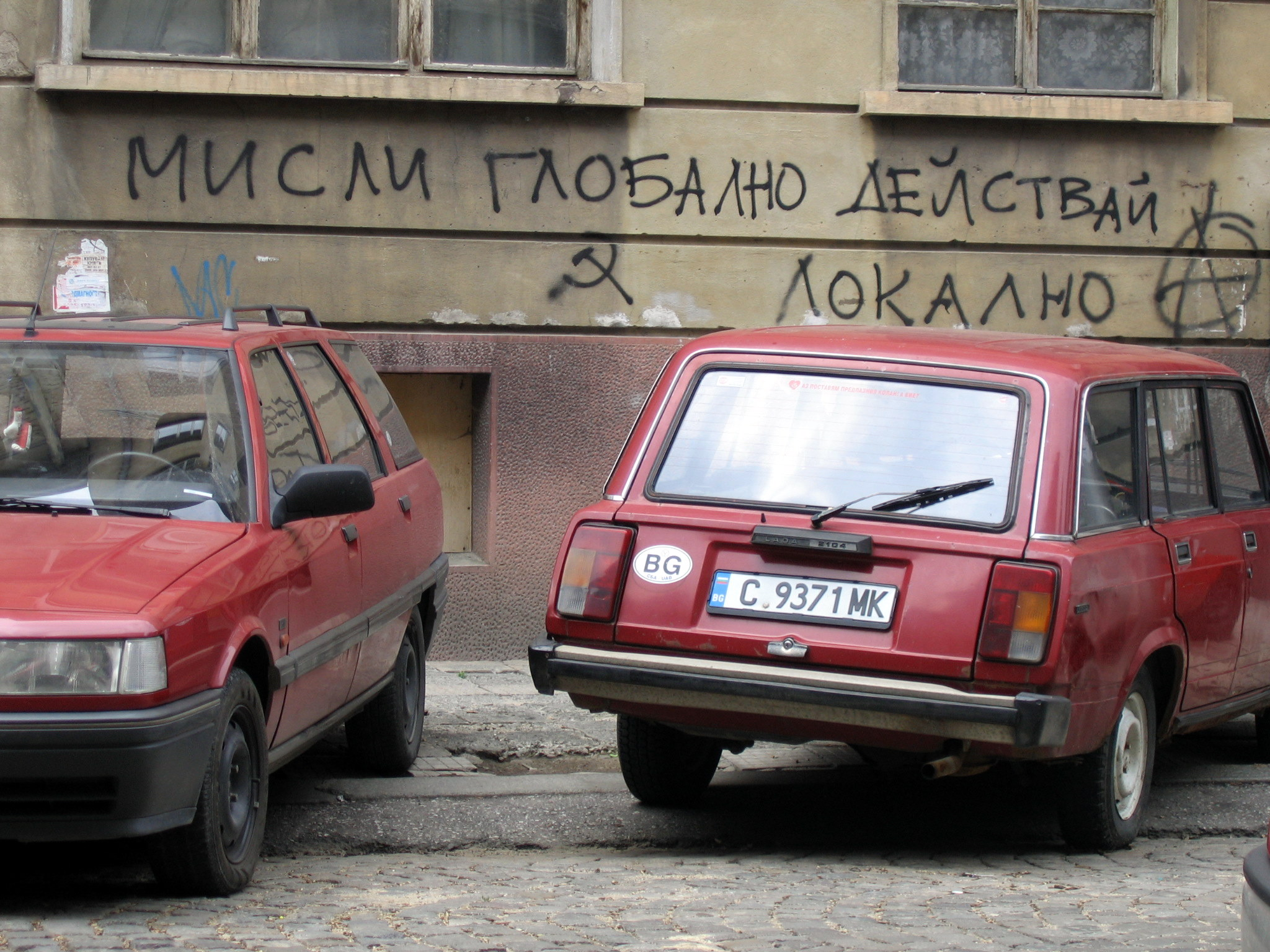 "Think globally-act locally", Sofia (Bulgaria).